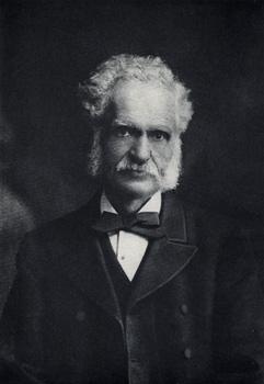 photograph of Bates